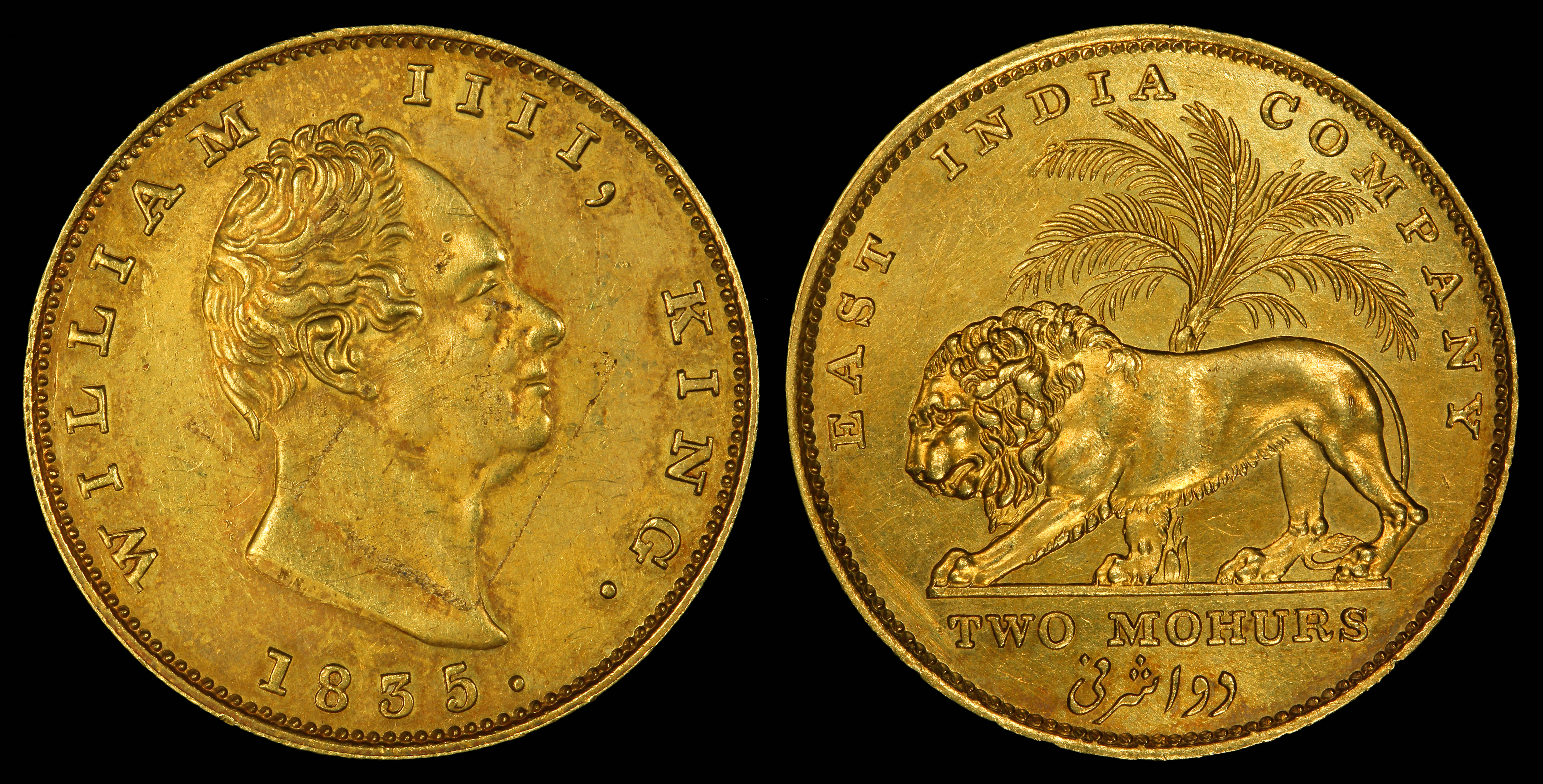 British India, Two mohurs (also Double Mohur) (1835), depicting King William IV.